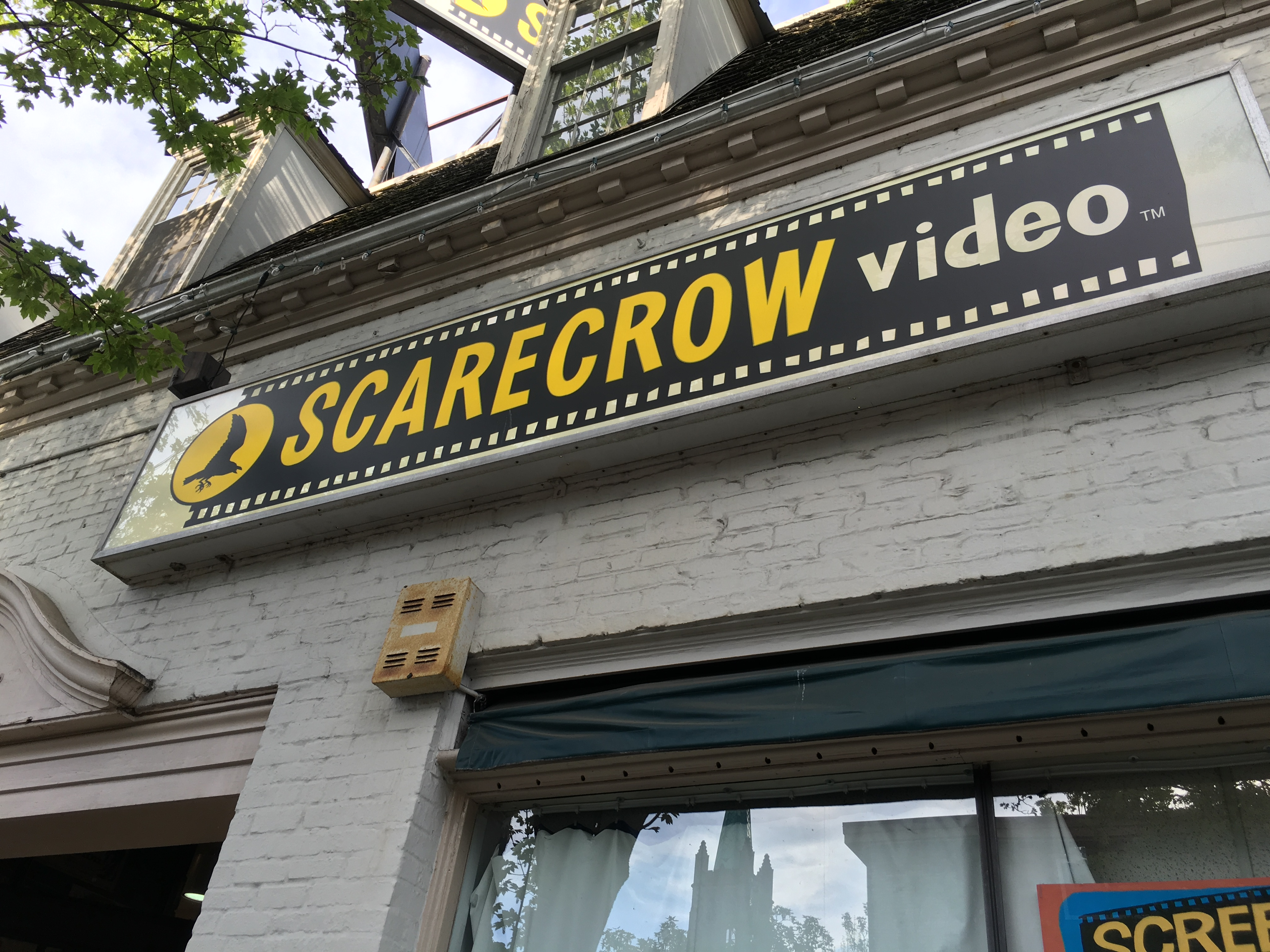 Front of Scarecrow Video in Seattle, Washington. This image was taken in April 2016.